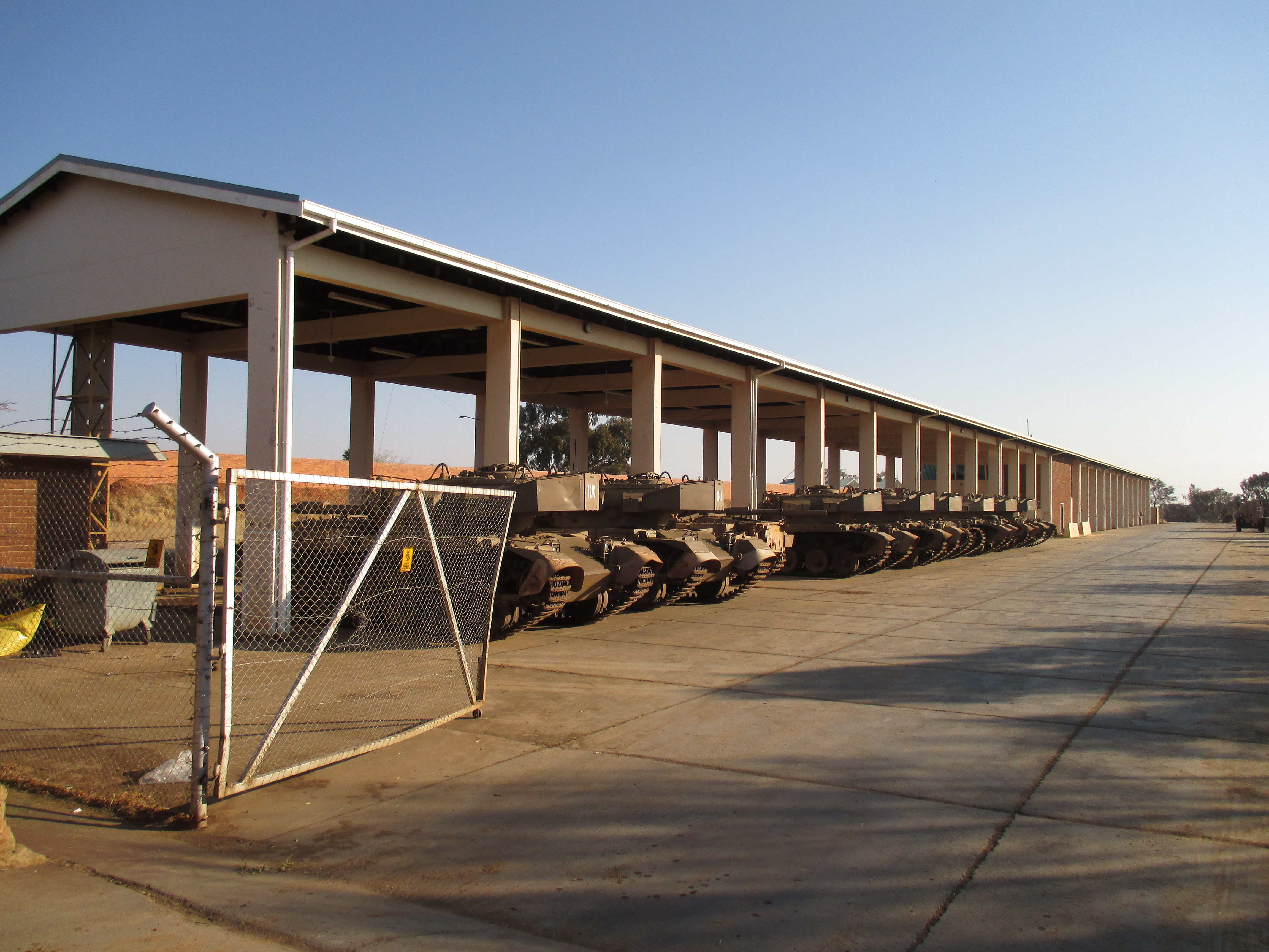 Description: Olifant Mk1As at the South African Armour Museum, Bloemfontein.